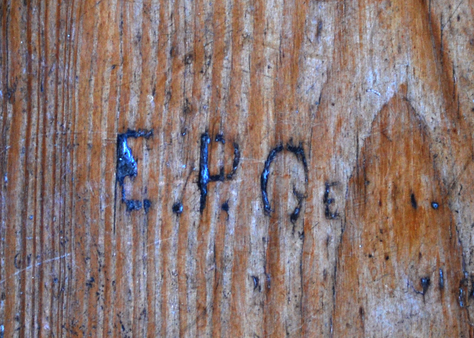 Inscription of Private Eugene P. Geer, at Stone House, Manassas National Battlefield Park.